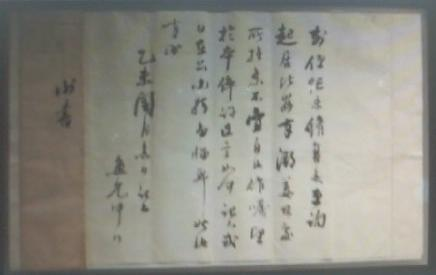 Letter of Uh yun-jong, in Kyunggi memorial museum